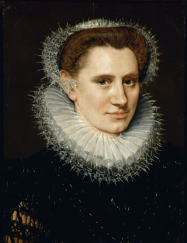 Adriaen Key (1544 - 1590): Portrait de Femme